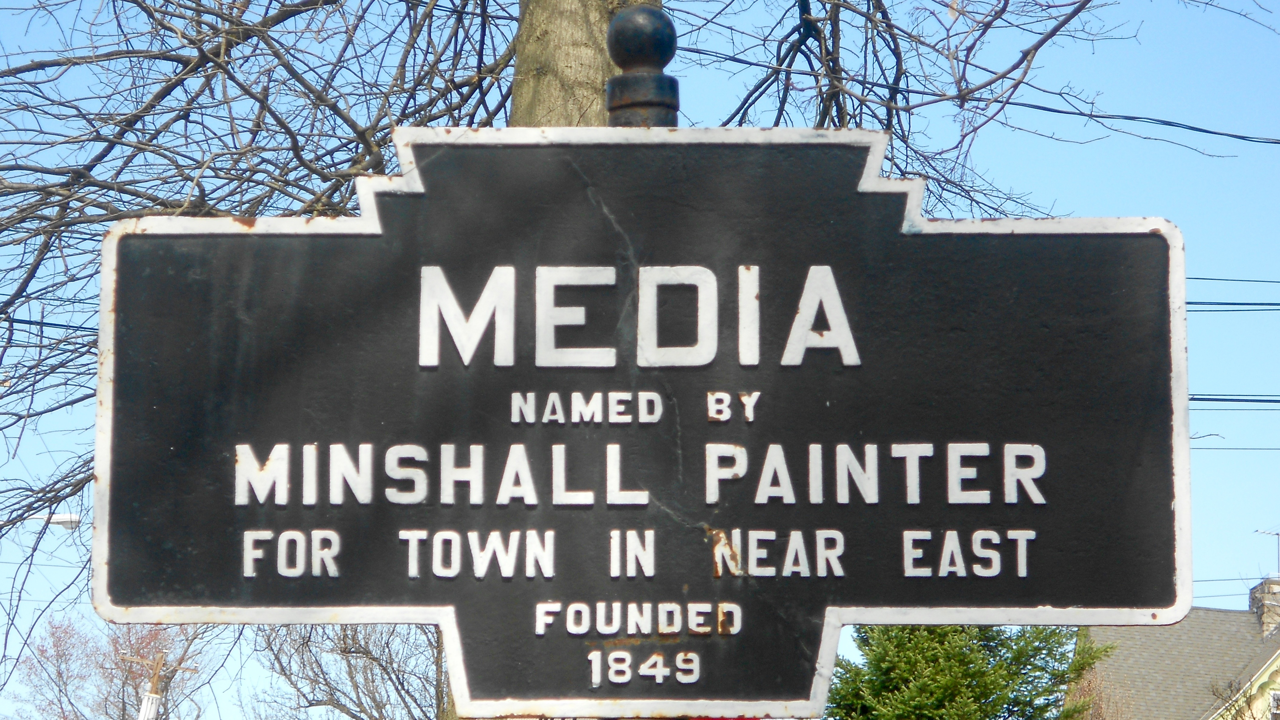 Keystone Marker for Media, Pennsylvania. Official state highway department sign - though this doesn't mean the naming story is necessarily correct. The sign has been damaged, repaired and repainted (black and white) from its original colors (sky blue and yellow). Post is the standard original type. Keystone Marker Trust lists this at